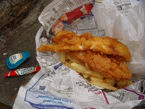 Fish and chips traditionally wrapped in white paper (for hygiene) and then newspaper; frequently eaten with tartar sauce and ketchup; Stromness, Orkney.